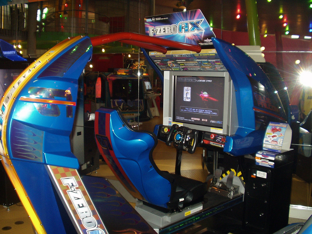 F-Zero AX deluxe cabinet